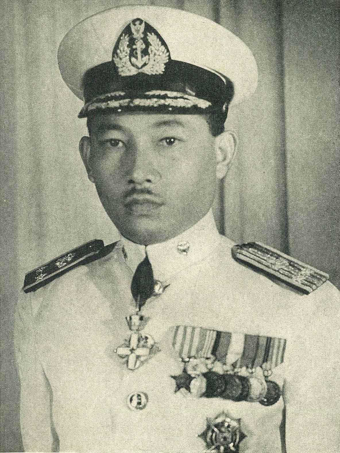 RE Martadinata